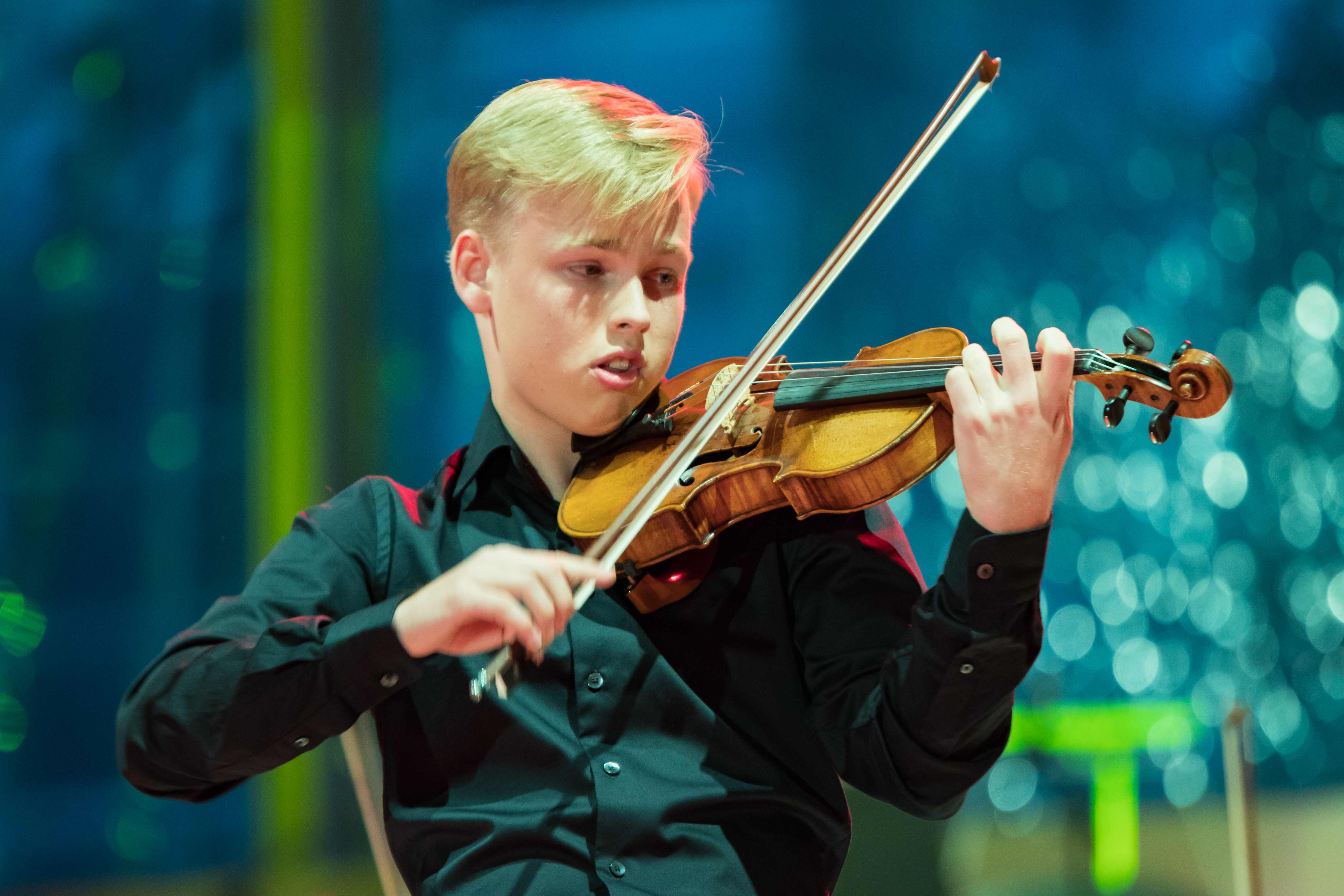 Eurovision Young Musicians 2016 in Cologne, Rehearsal on September 2nd 2016: Ludvig Gudim